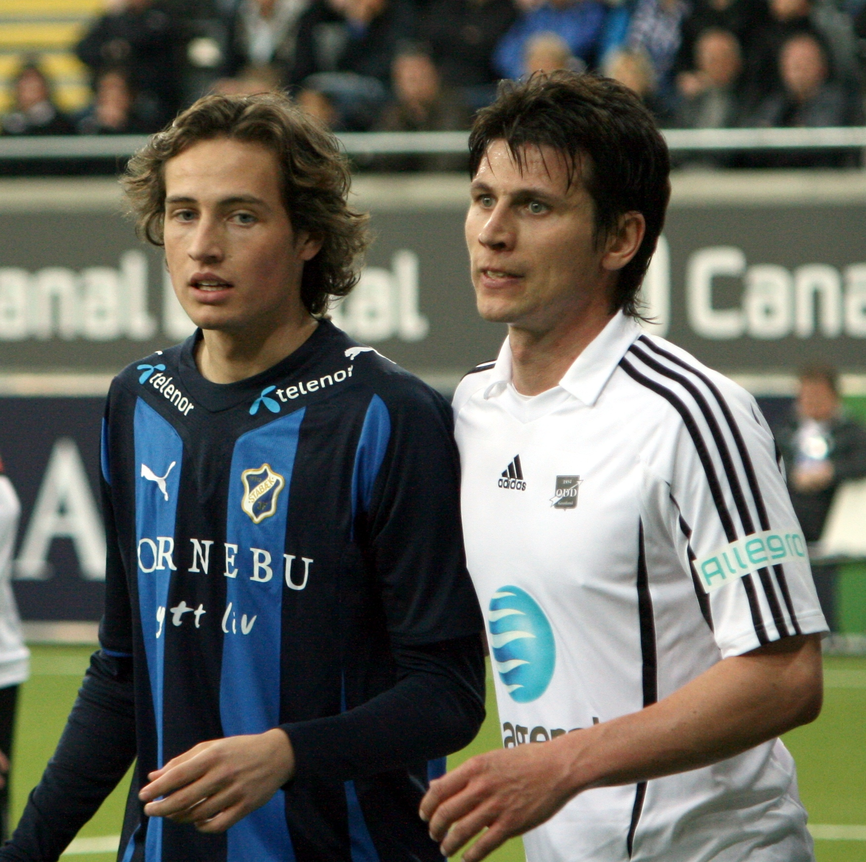 Mikkel Diskerud (left) and Kenneth Dokken.